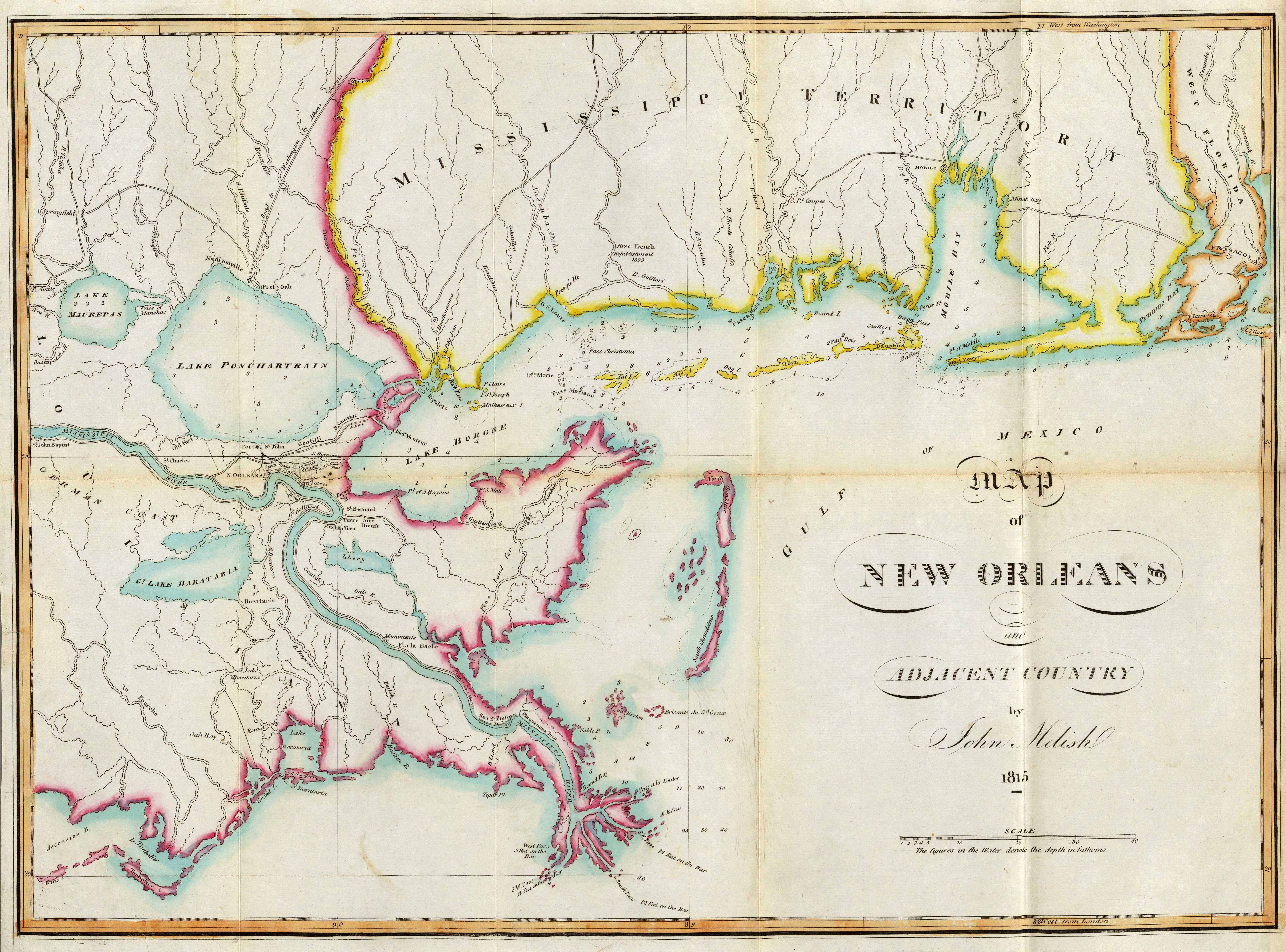 New Orleans and Louisiana 1815